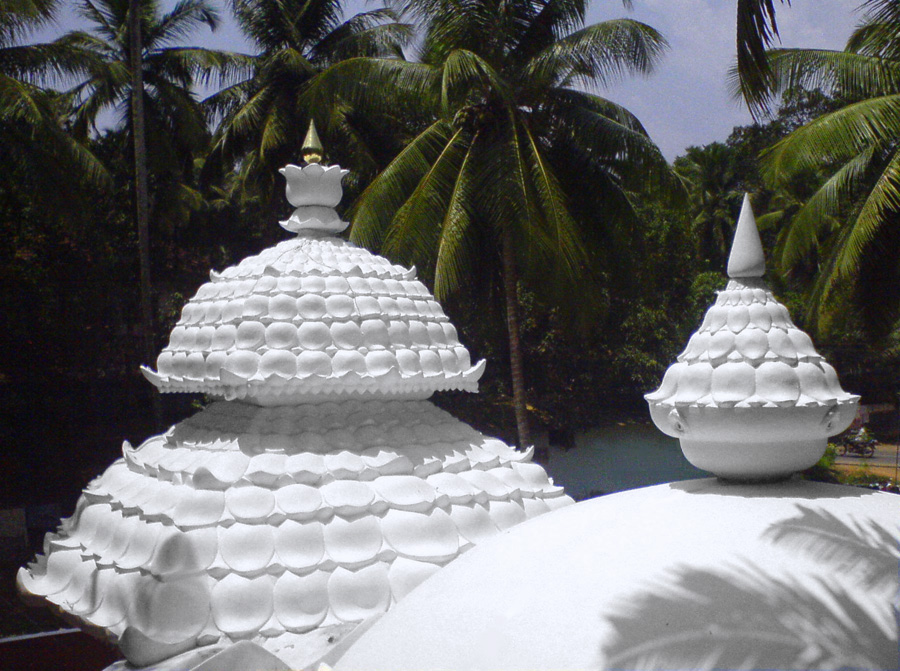 This Photograph is a Nizhal Thangal near Thiruvattar, Tamil Nadu. This Thangal was constructed with an architecture with 1008 inverted lotus petals as roof.